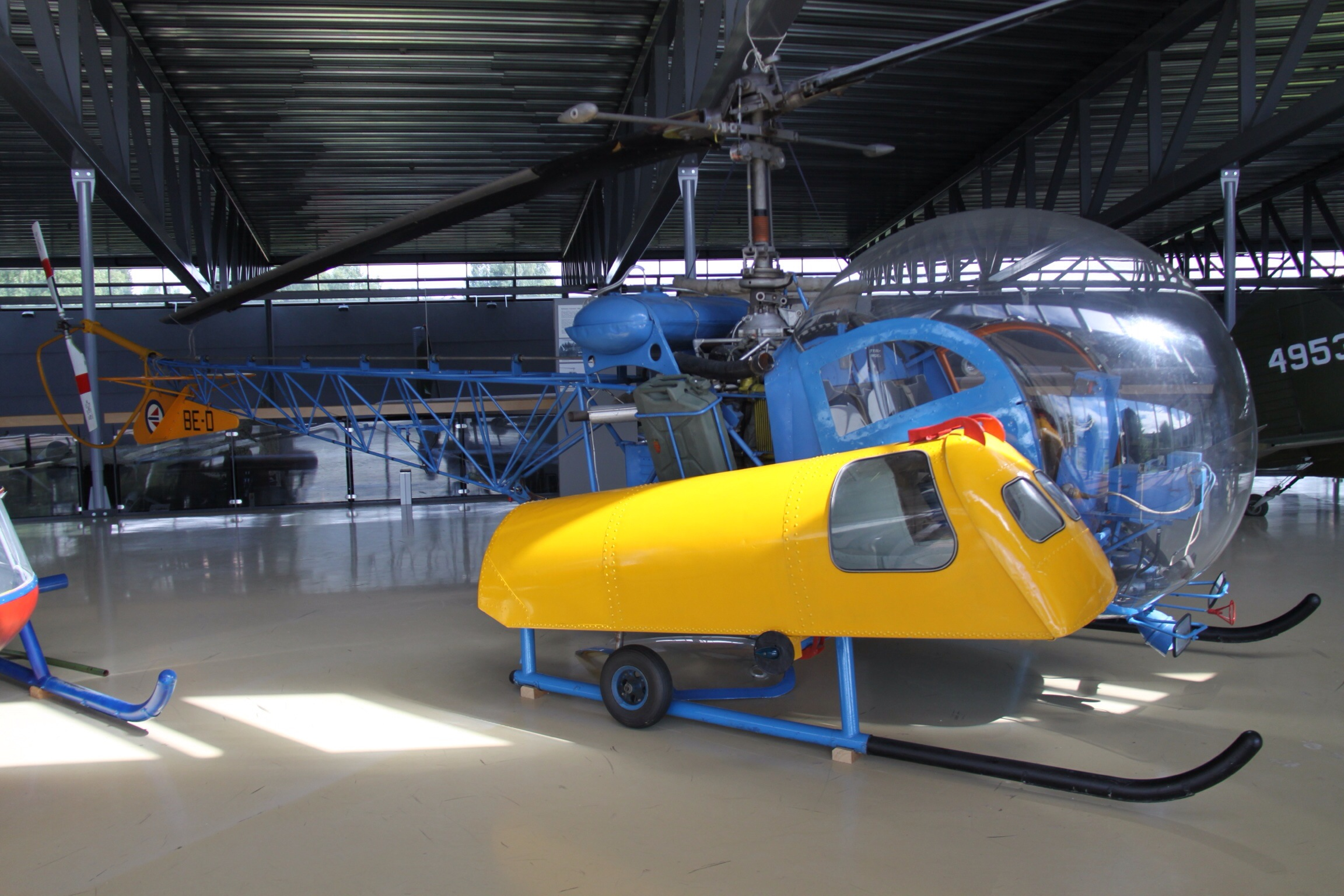 At Oslo Gardermoen